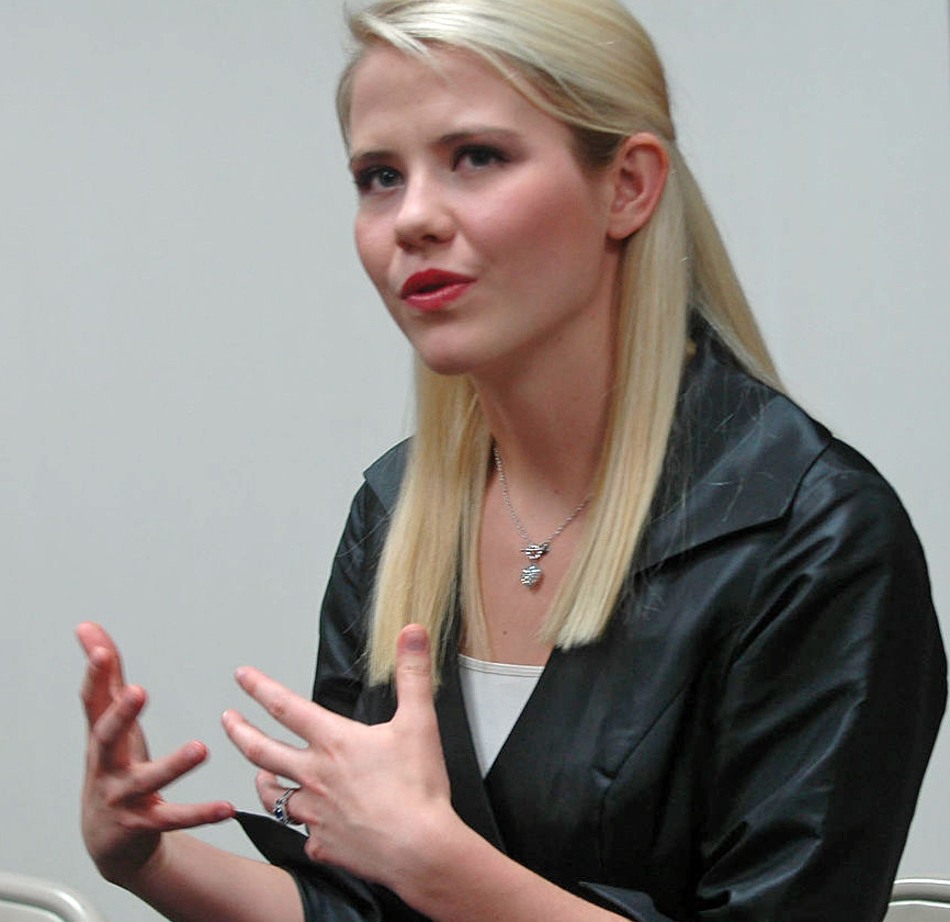 Kidnapping survivor Elizabeth Smart speaks to local media outlets before the event at Fitzsimmons-John Arena in Moberly, Mo., on Tuesday, June 19, 2012. Smart was abducted in 2002 and held captive for nine months. (Veneta Rizvic/KOMU) View the full story at